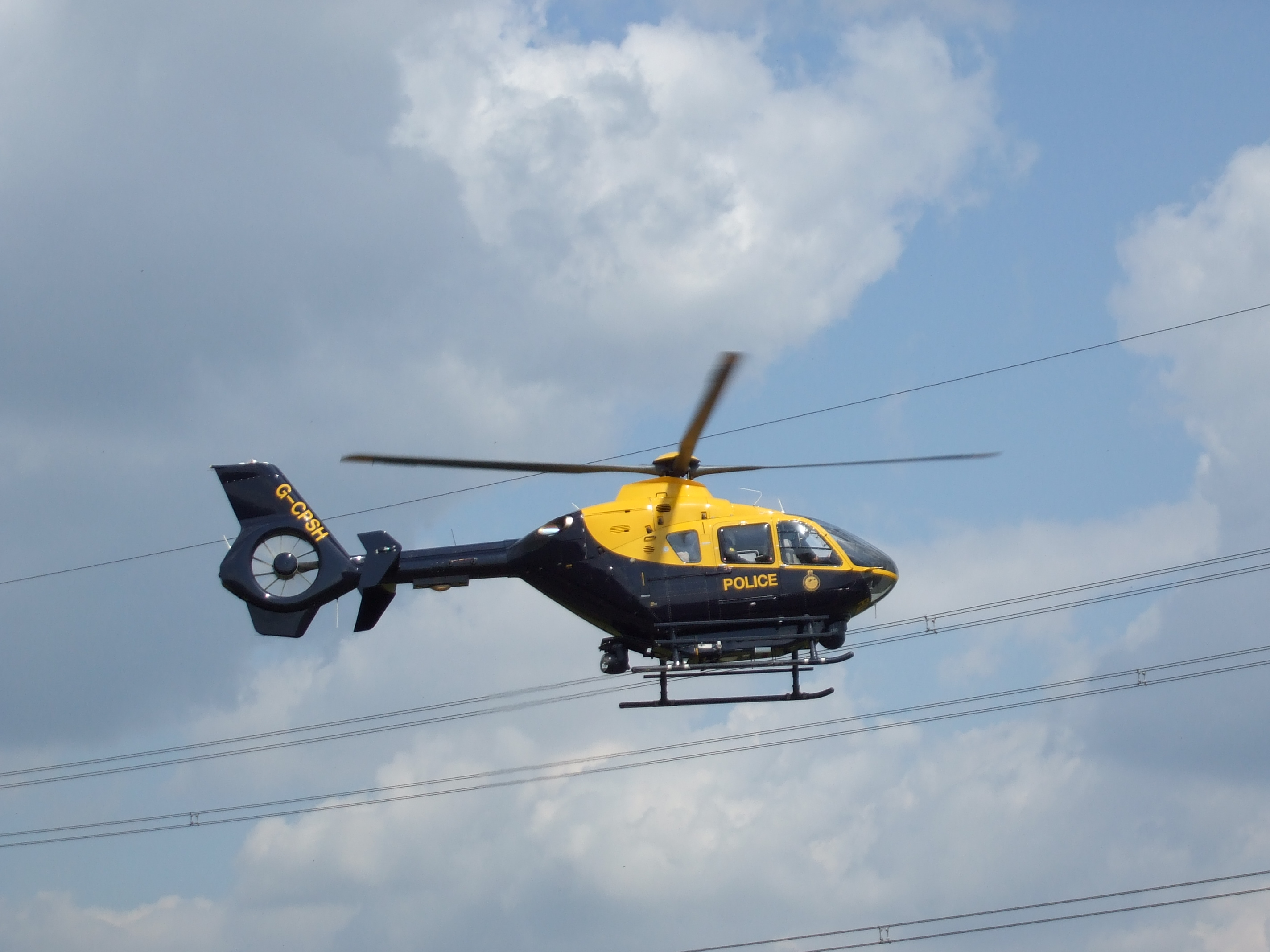 Police Helicopter of the Chiltern Air Support Unit after it had taken off from the A505 at Offley Grange after attending a scene of a Road Traffic Collision involving a police vehicle